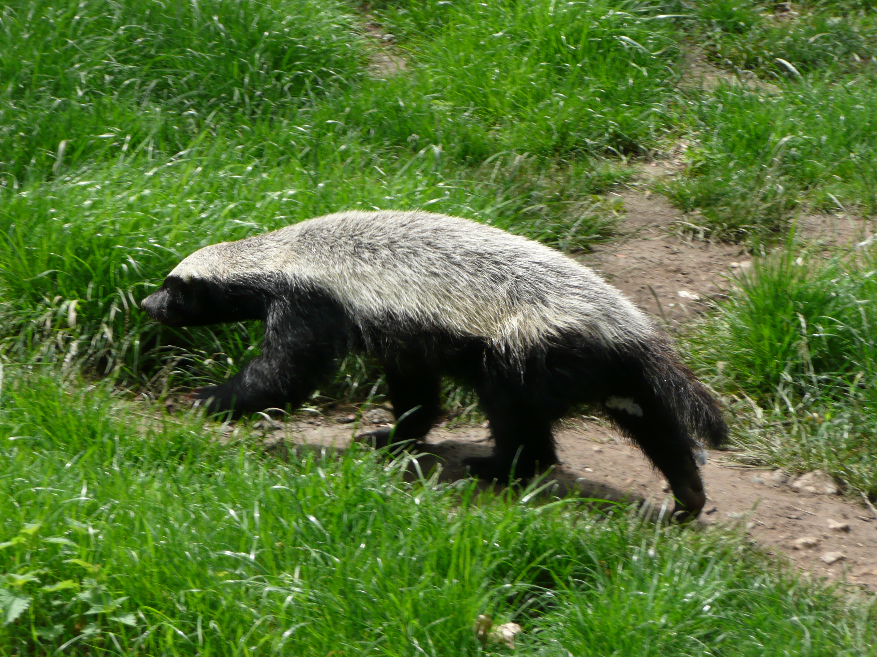 Mellivora capensis (Honey Badger) in Howletts Wild Animal Park, Kent, England.